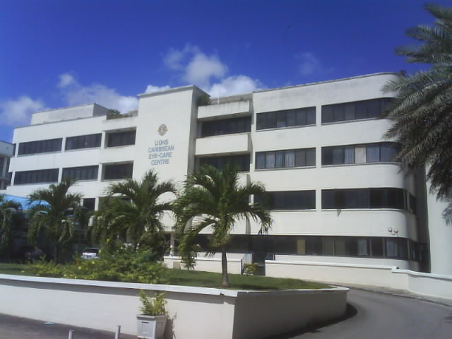 The Queen Elizabeth Hospital at Martindale's Road, Bridgetown, St. Michael.